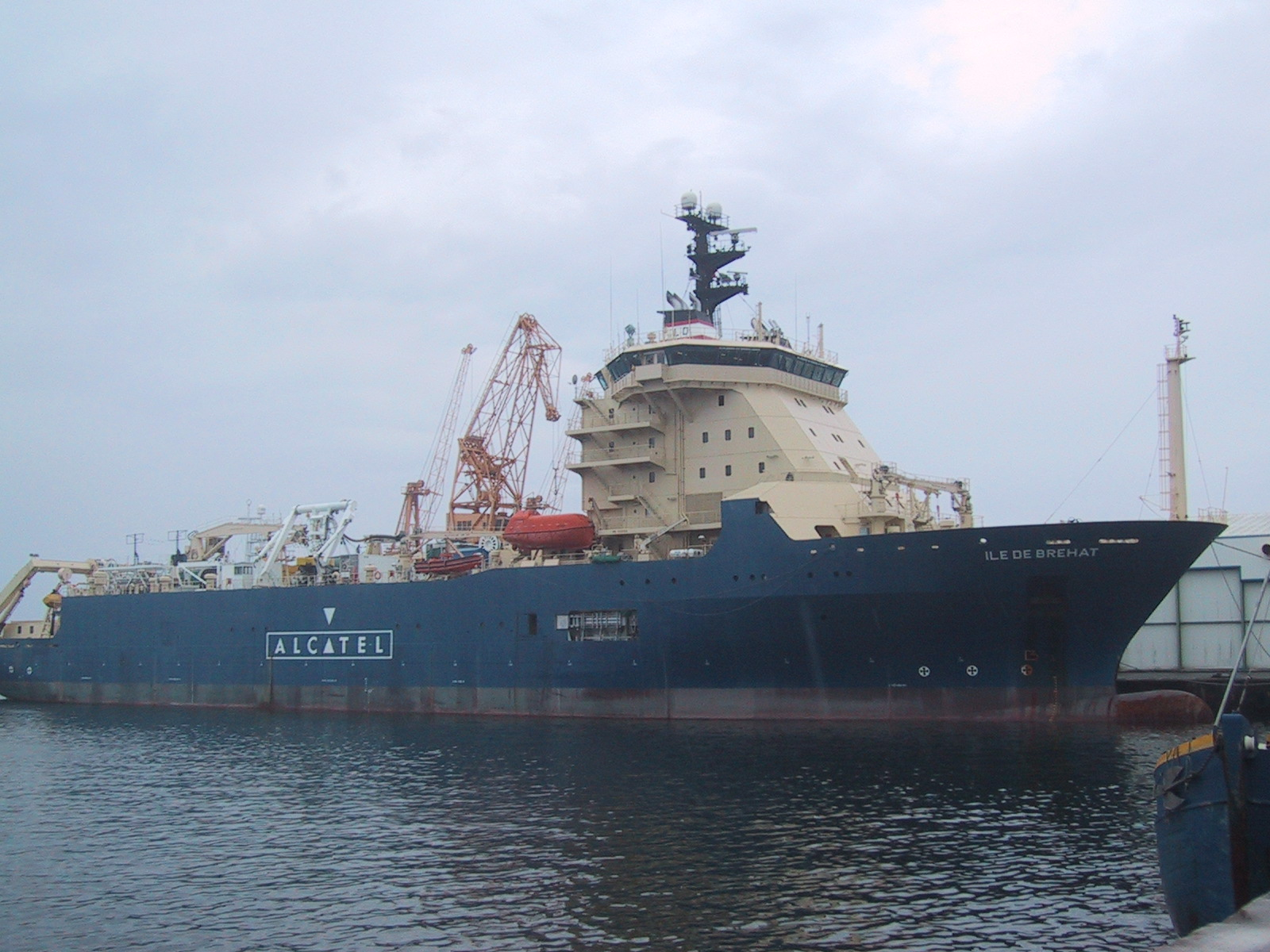 Alcatel's cable ship "île de Bréhat"